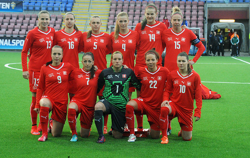 Switzerland line-up for a match against Sweden on 5 April 2015 1-Michel Stenia 5 Maritz Noelle 15- Abbé Caroline(C) 14- Kiwic Rahel 4- Rinast Rachel 16- Humm Fabienne 9- Wälti Lia 22- Bernauer Vanessa 13- Crnogorcevic Ana Maria 7- Moser Martina 10- Bachmann Ramona